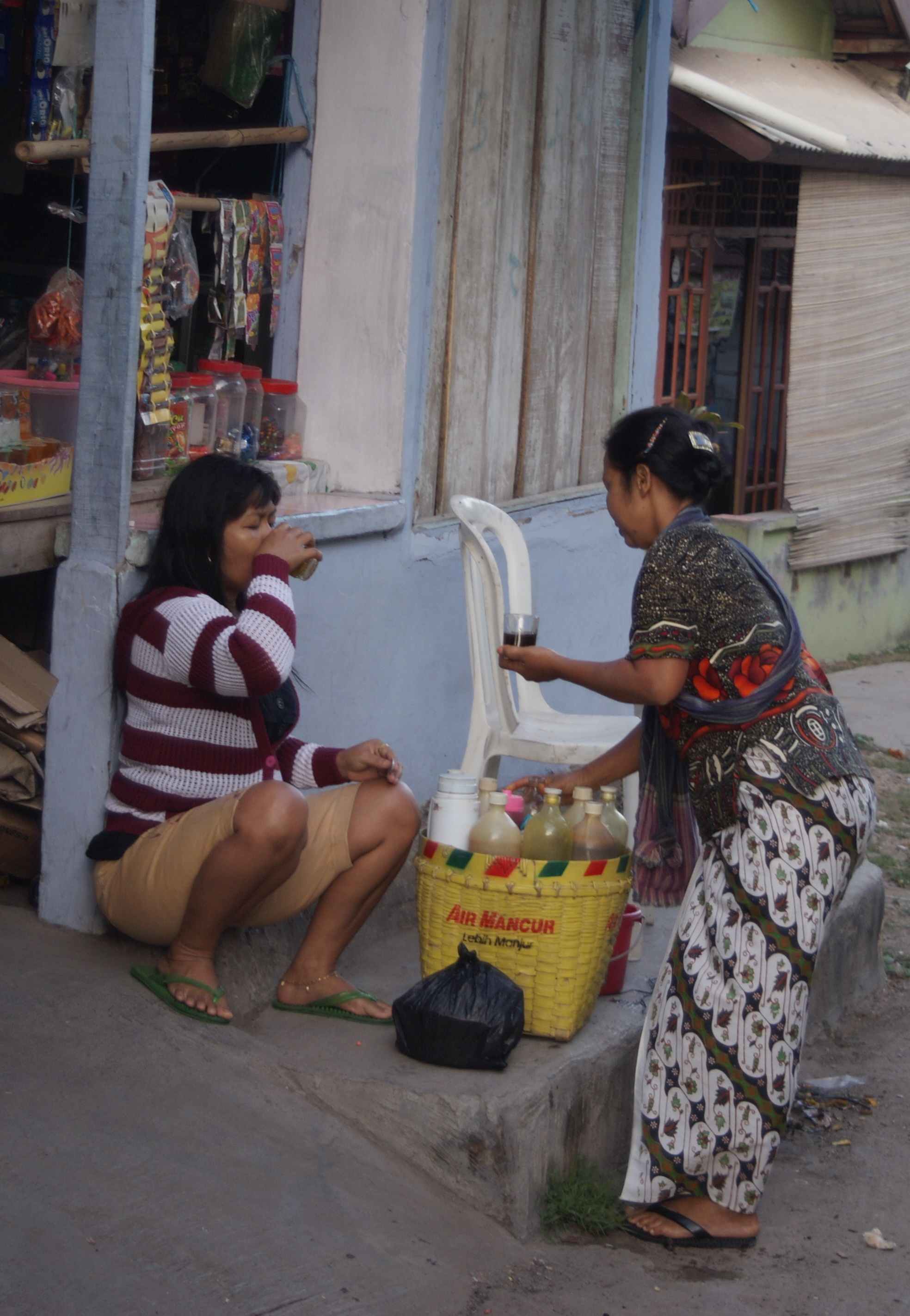 Jamu gendong (jamu carried on the back), traditional medicine of Java, Indonesia.